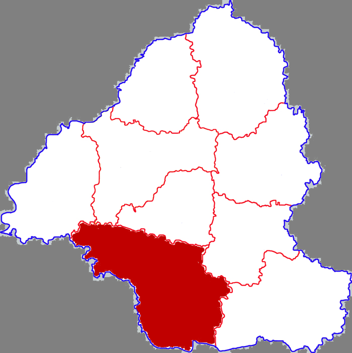 Location of Cao county in Heze City, China